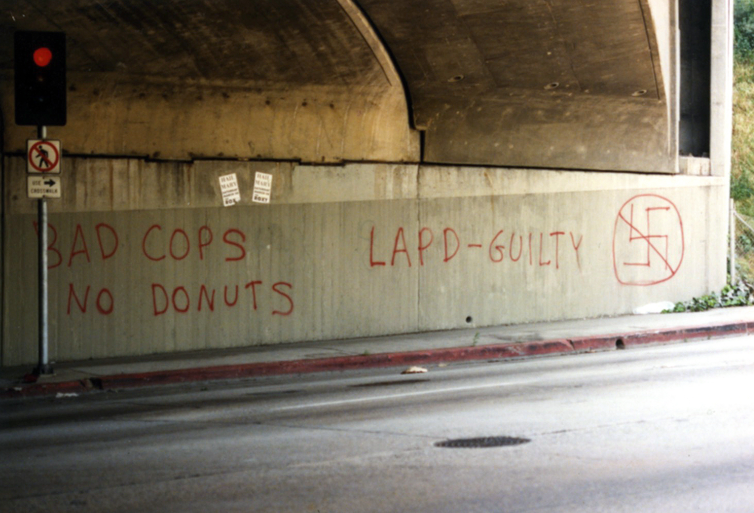 Bad Cops, No Donuts - LAPD-Guilty taken at the Cahuenga exit traffic-light off the 101 fwy